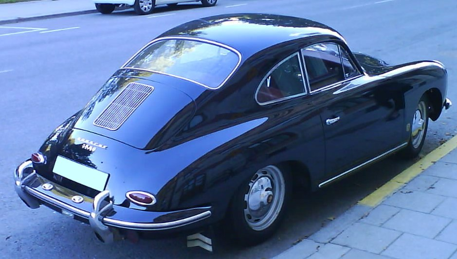 Porsche 356, rear right view